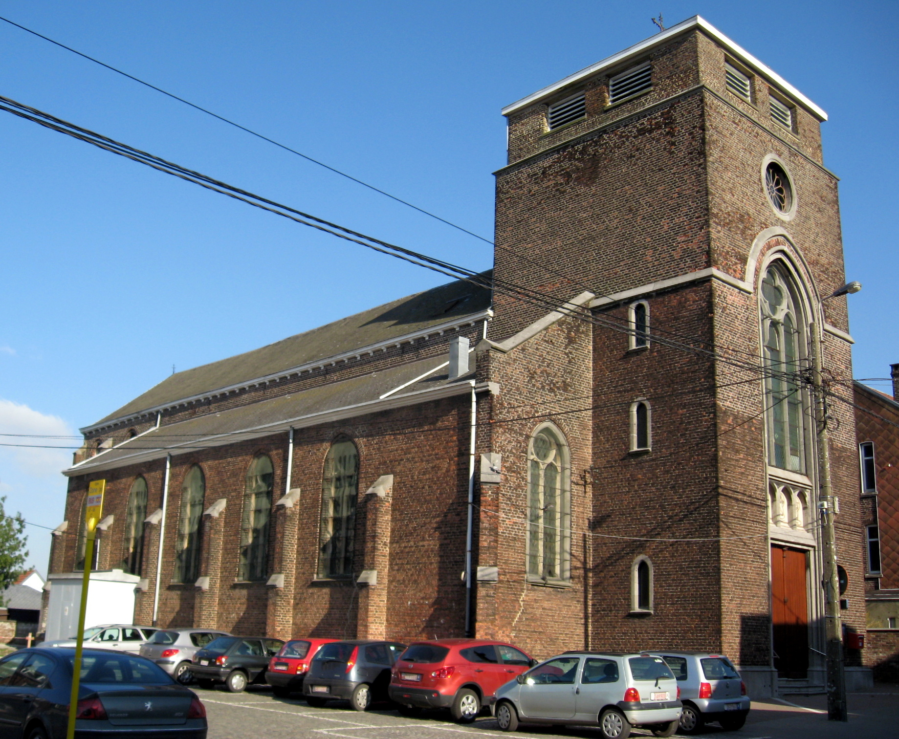 Church of Saint Anthony the Hermit in Queue-du-Bois, Beyne-Heusay, Liège, Belgium